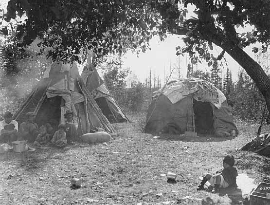 left: two Dakota (Sioux) tipis; right: an Ojibwe (Chippewa) wigwam (waaginogaan). Location: White Earth, Minnesota.